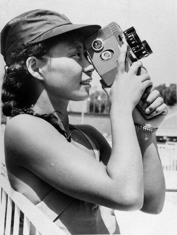 Kanoko Tsutani-Mabuchi at the Rome Olympics